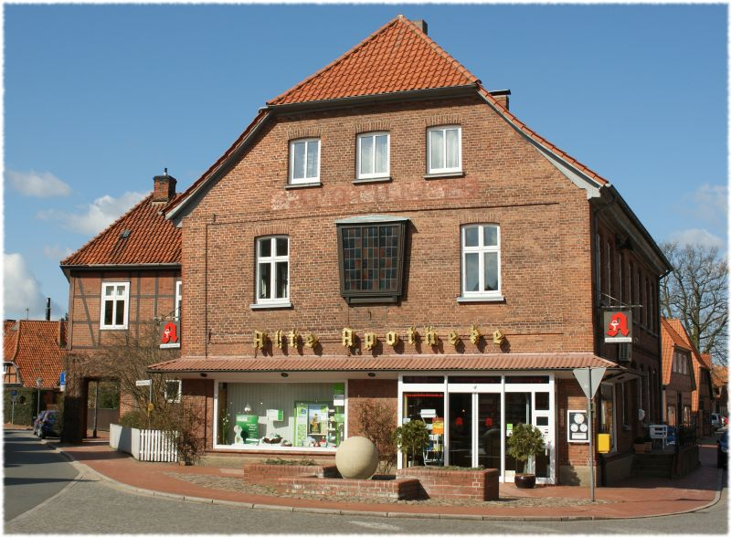 Pic of the Alte Apotheke in Bleckede